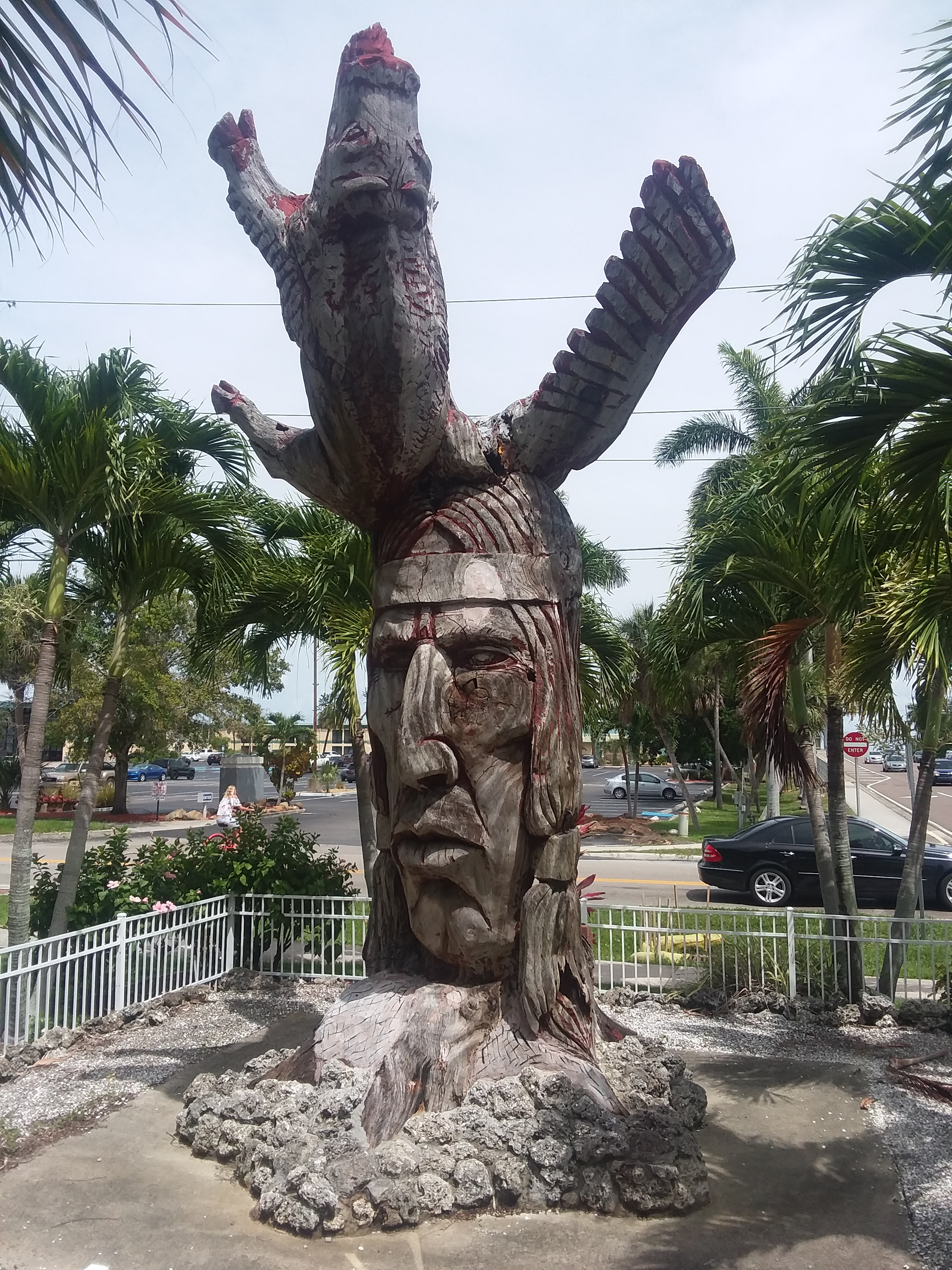 Calostimucu carving at Freeman House, Punta Gorda